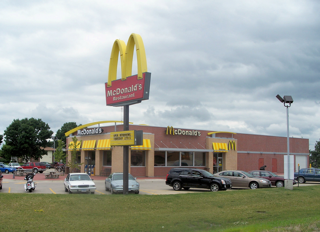 A new McDonald's restuarant in Mount Pleasant, Iowa.